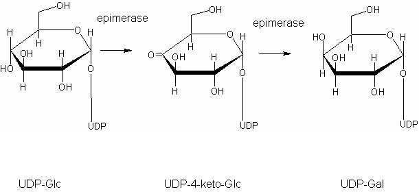 biosynthesis of galactose